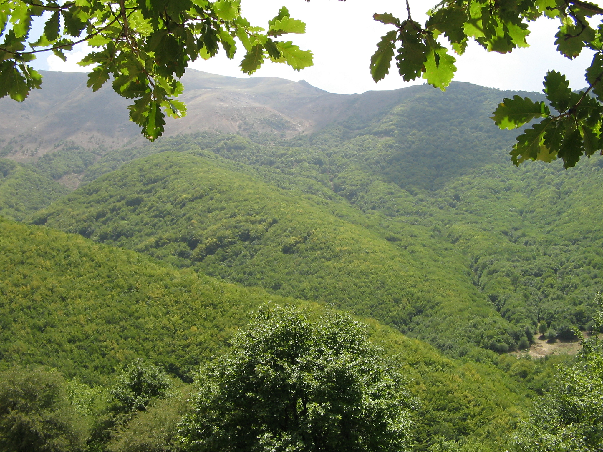 Arasbaran forest in the vicinity of Tabriz.